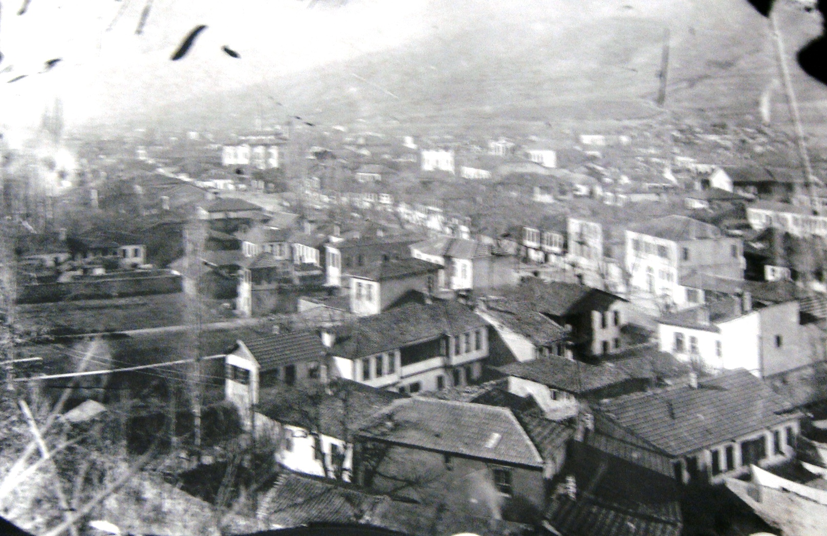 Panorama of Korçë. 1916 (damaged glass plate) This media file is produced by Wikipedian in Residence in Category:Wikipedian in Residence at DARM in 2016.